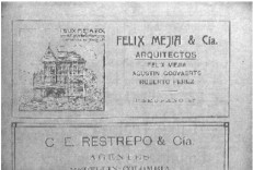 This is an image of a commecial post that speak about Agustín Goovaerts and Félix Mejía